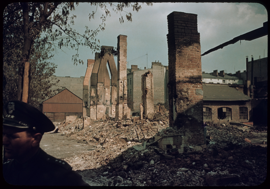 The results of German bombardment at 10 Radzymińska Street in Warsaw. September 1939. Visible Polish pilot on the left side. Kodak Kodachrome genuine color photo by Julien Bryan. Other color photos showing destroyed German bomber He-111 near the Bartoszewicza Street, Polish soldiers fighting during the Second World War, fleeing civilians and the Old Town. More color photographs, one Kodachrome roll survived in the United States Holocaust Memorial Museum in Washington.